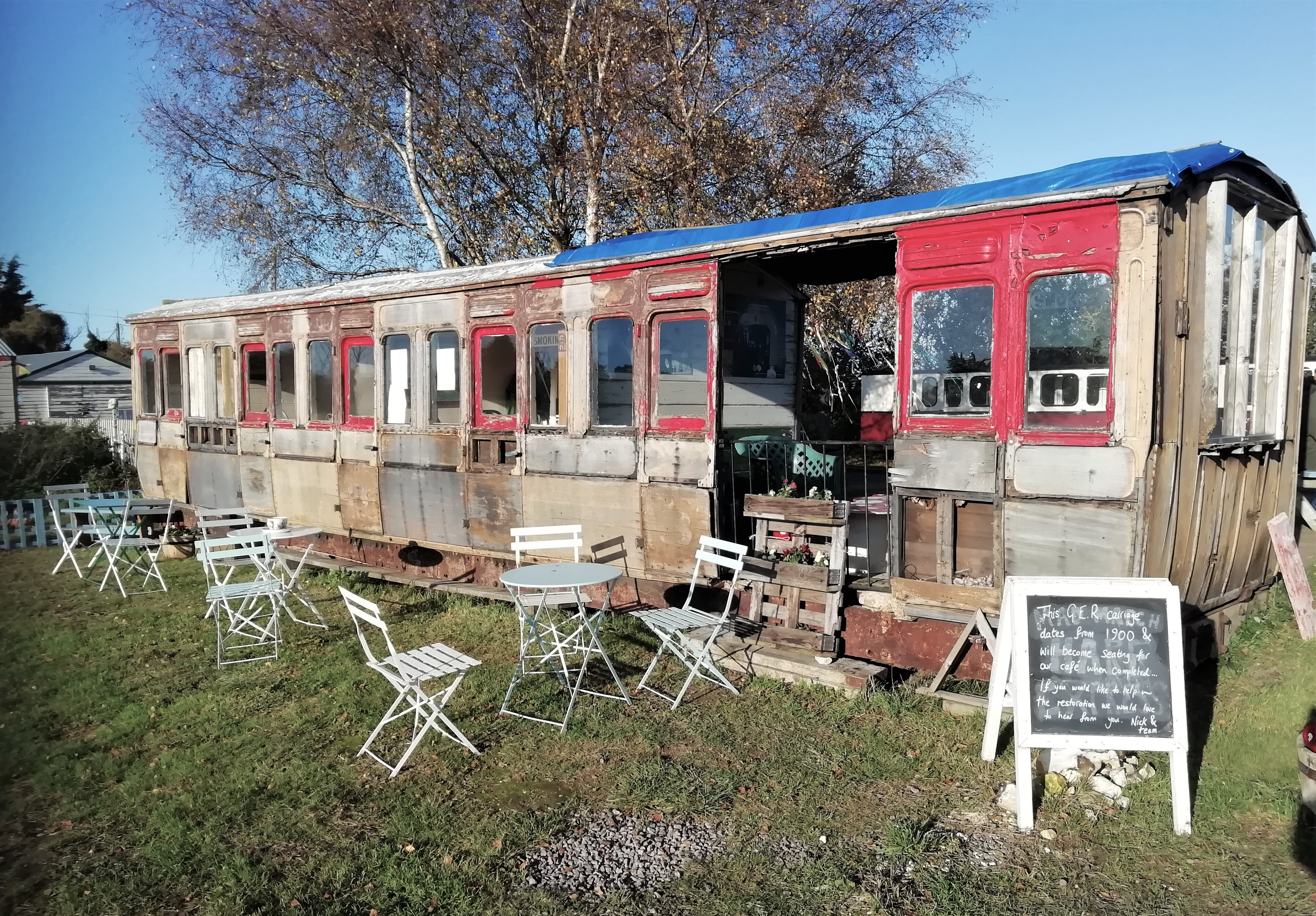 Great Eastern Railway carriage number 995, former 6-wheel third.